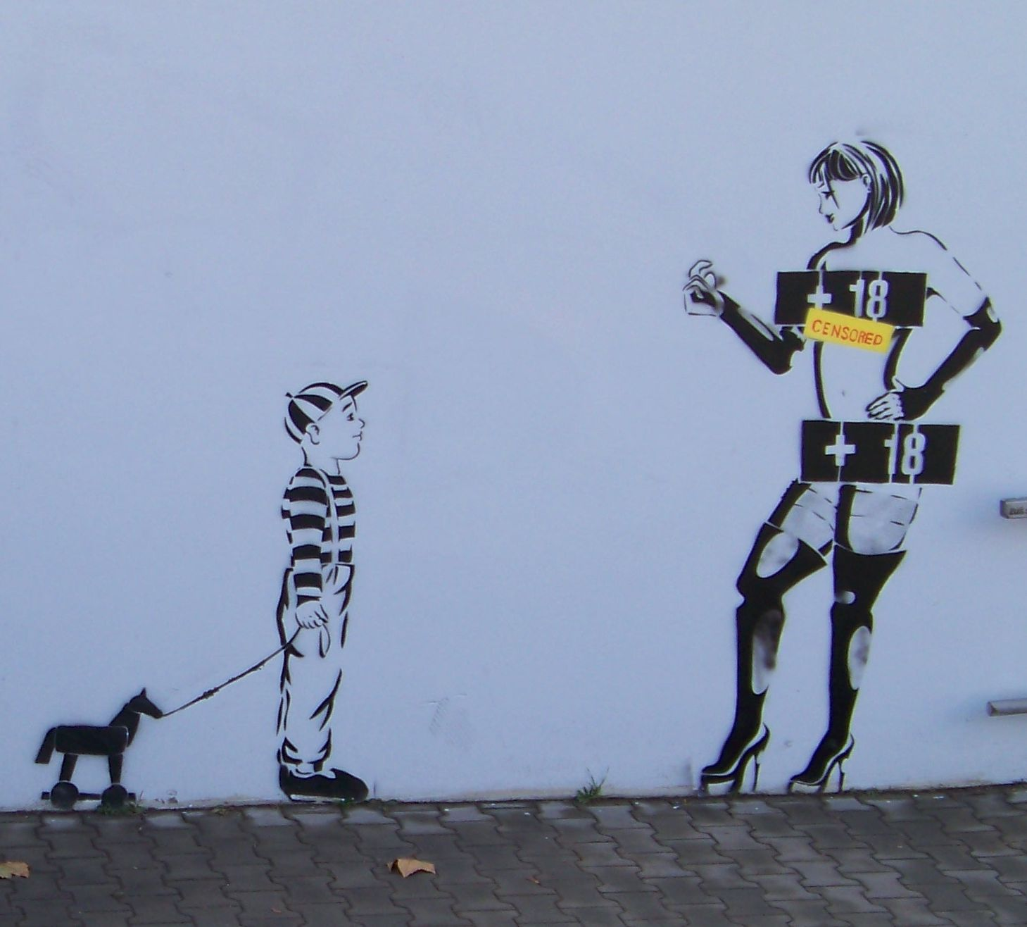 Hradec Králové-Nový Hradec Králové, Hradec Králové District, Hradec Králové Region, the Czech Republic. Murals on the underpass under Brněnská street at the bus stop Futurum.